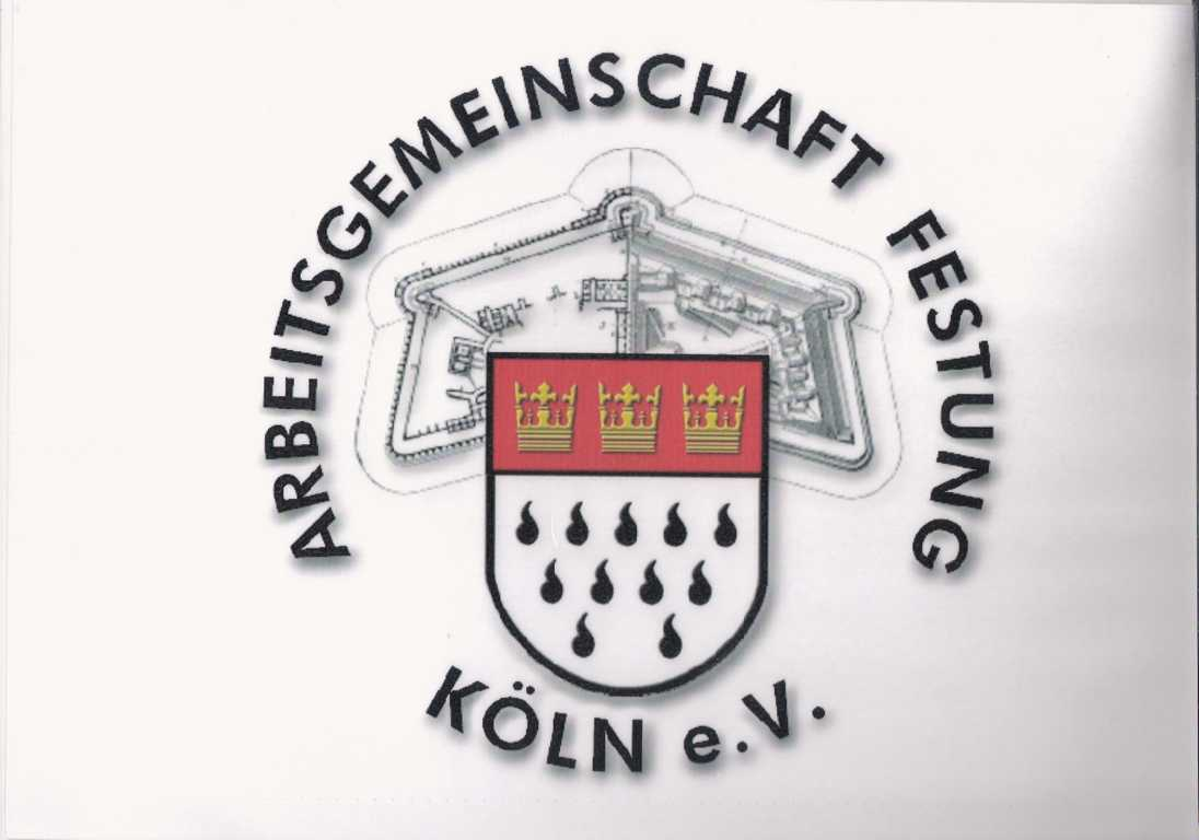 Logo Arbeitsgemeinschaft Festung Koeln